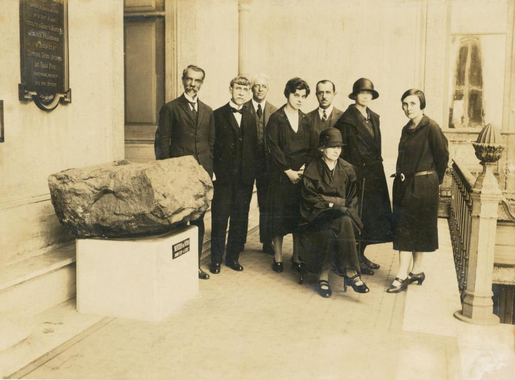 Marie Curie, winner of two Nobel Prizes (Physics in 1903 and Chemistry in 1911) and her daughter, Irene Joliot-Curie (also a Nobel Prize winner - Chemistry, 1935) visit the National Museum of Brazil, Rio de Janeiro, August 8th, 1926. Photograph, 15.5 x 18.5 cm. Collection of the National Museum of Brazil. In the picture, Marie Curie is seated in the chair and, behind her, from left to right, are Alípio de Miranda, an unidentified man, Hermillo Bourguy de Mendonça, Heloísa Alberto Torres, Alberto Betim Paes Leme, Irene Joliot-Curie, and Bertha Lutz.